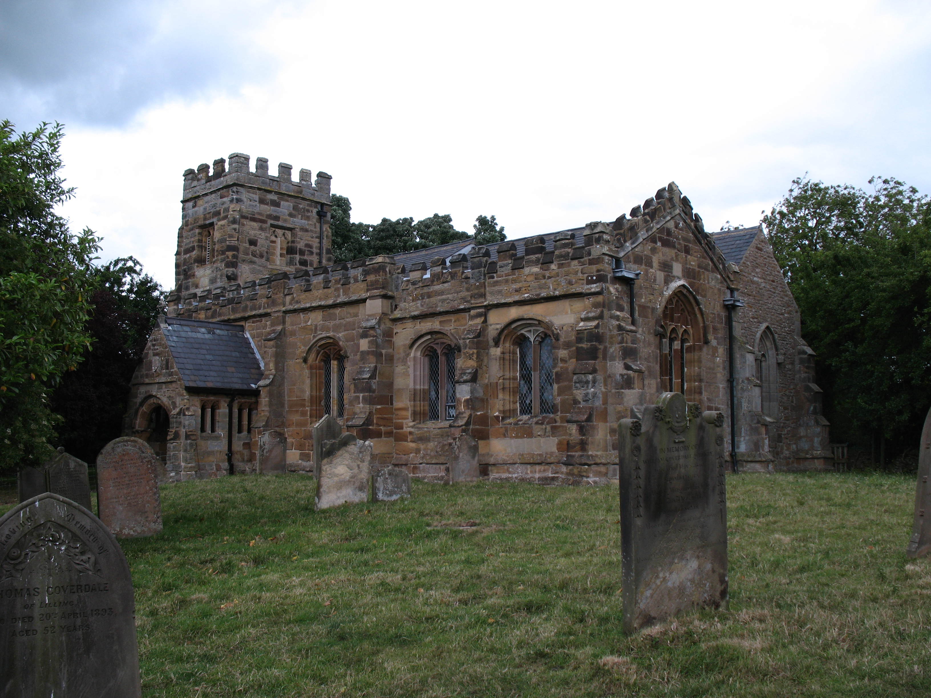 St Martins, Whenby, near to Whenby, North Yorkshire, Great Britain. Small church of the Perpendicular period at one end of a tiny village. The church is currently not in use, but is open to visitors.